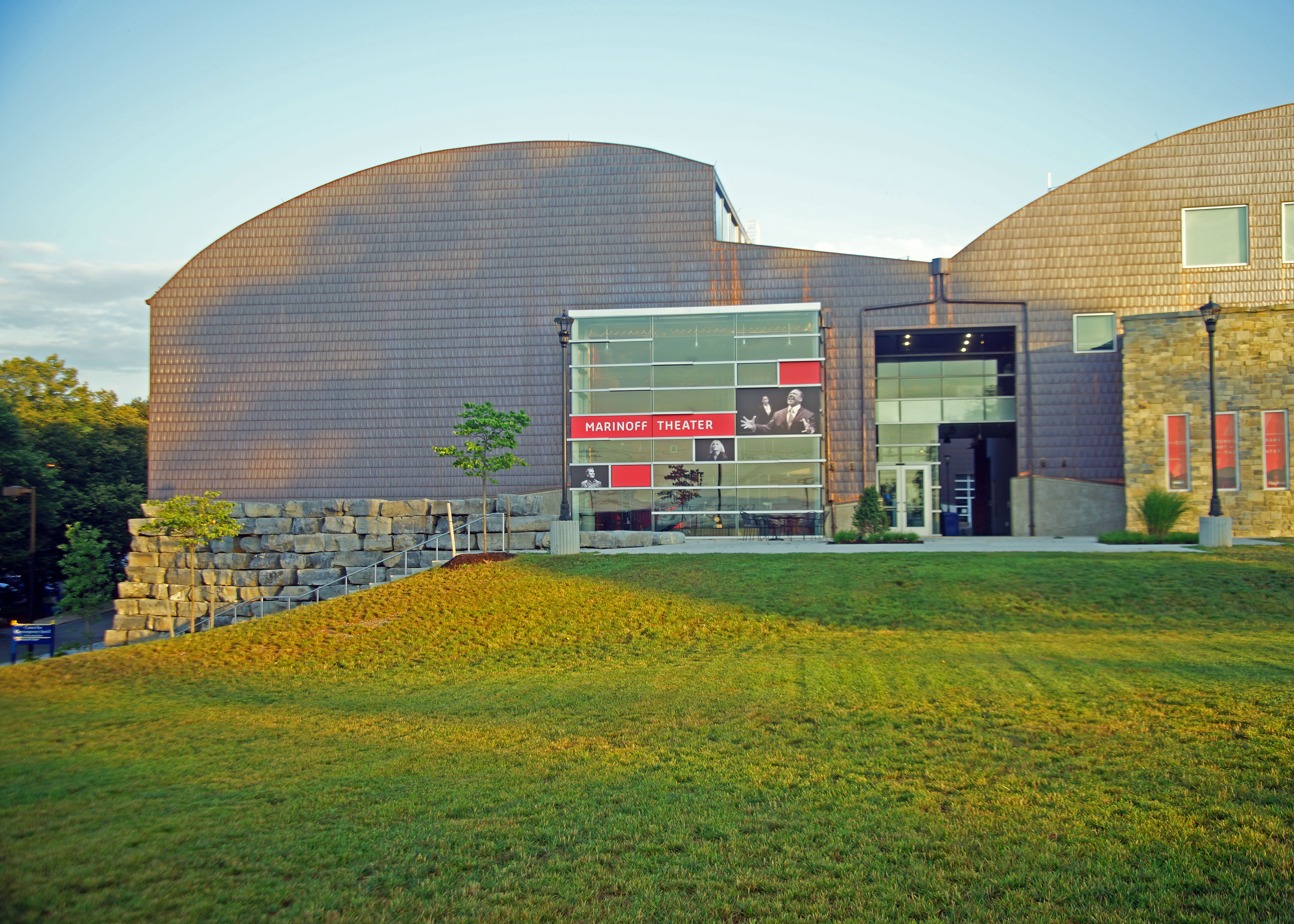 This is an exterior view of the Stanley C. and Shirley A. Marinoff Theater in the Center for Contemporary Arts II, used by the Contemporary American Theater Festival (CATF) in Shepherdstown West Virginia, USA. The glass main lobby and door are visible in the center and to the right of the picture. The theater proper occupies the entire left side of the building from the main lobby. The area upstairs above and behind the lobby is occupied by the CATF costume shop